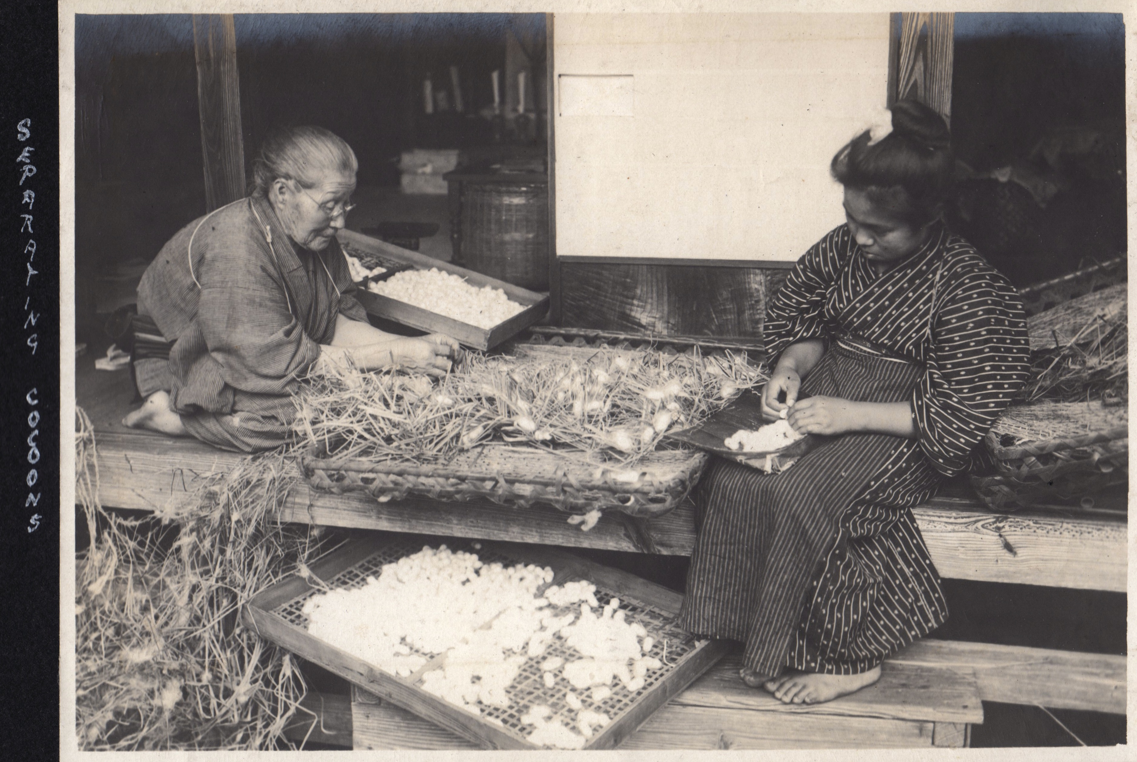 This photo is from an album my spouse's uncle Elstner Hilton compiled in Japan between 1914 and 1918. While Uncle Elstner was pretty good about annotating the photos that required an explanation of some sort, he did not date the pictures. So all we know is they date to between January, 1914 and December, 1918.